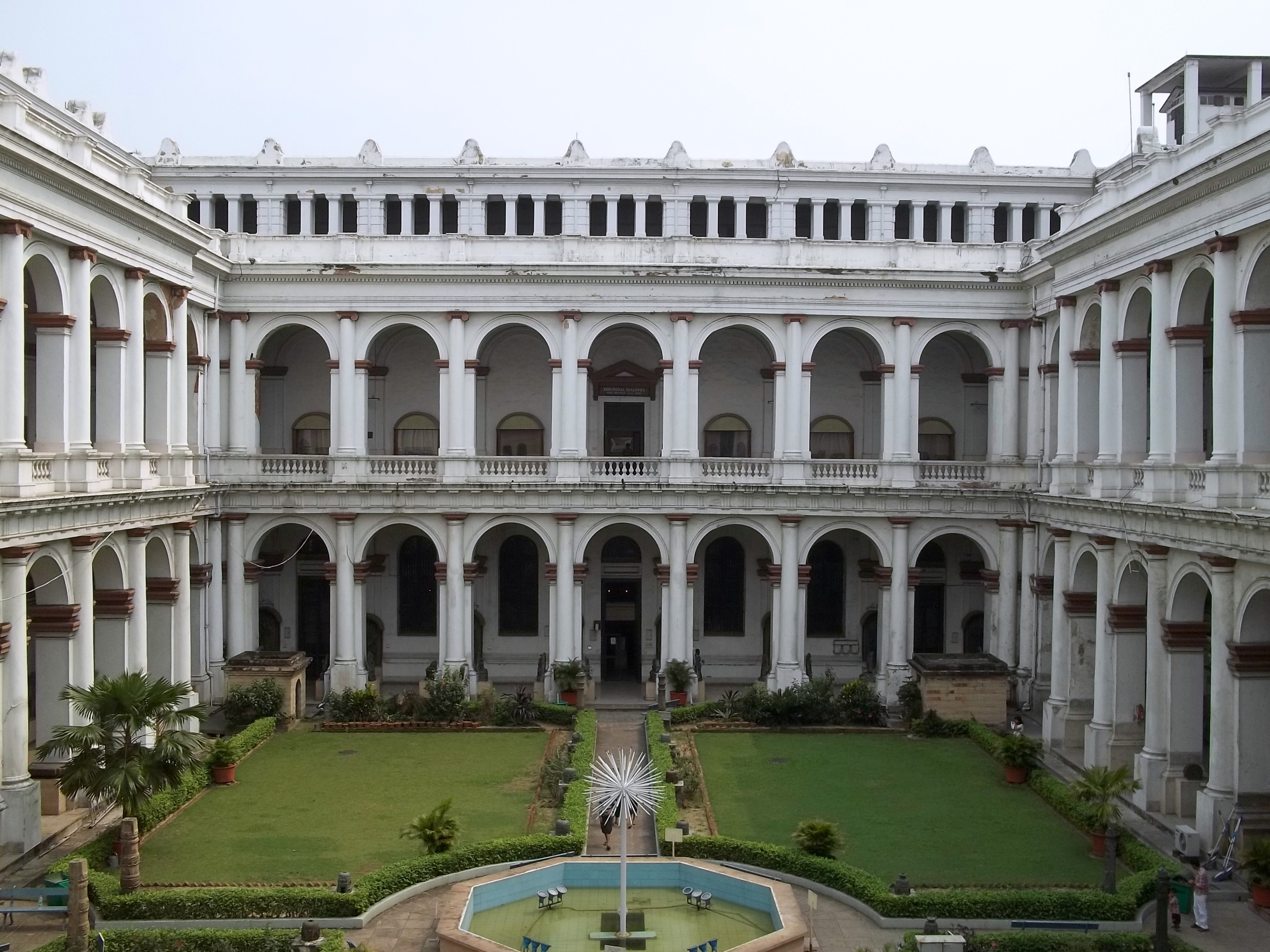 Interior view of The Indian Museum, Kolkata.